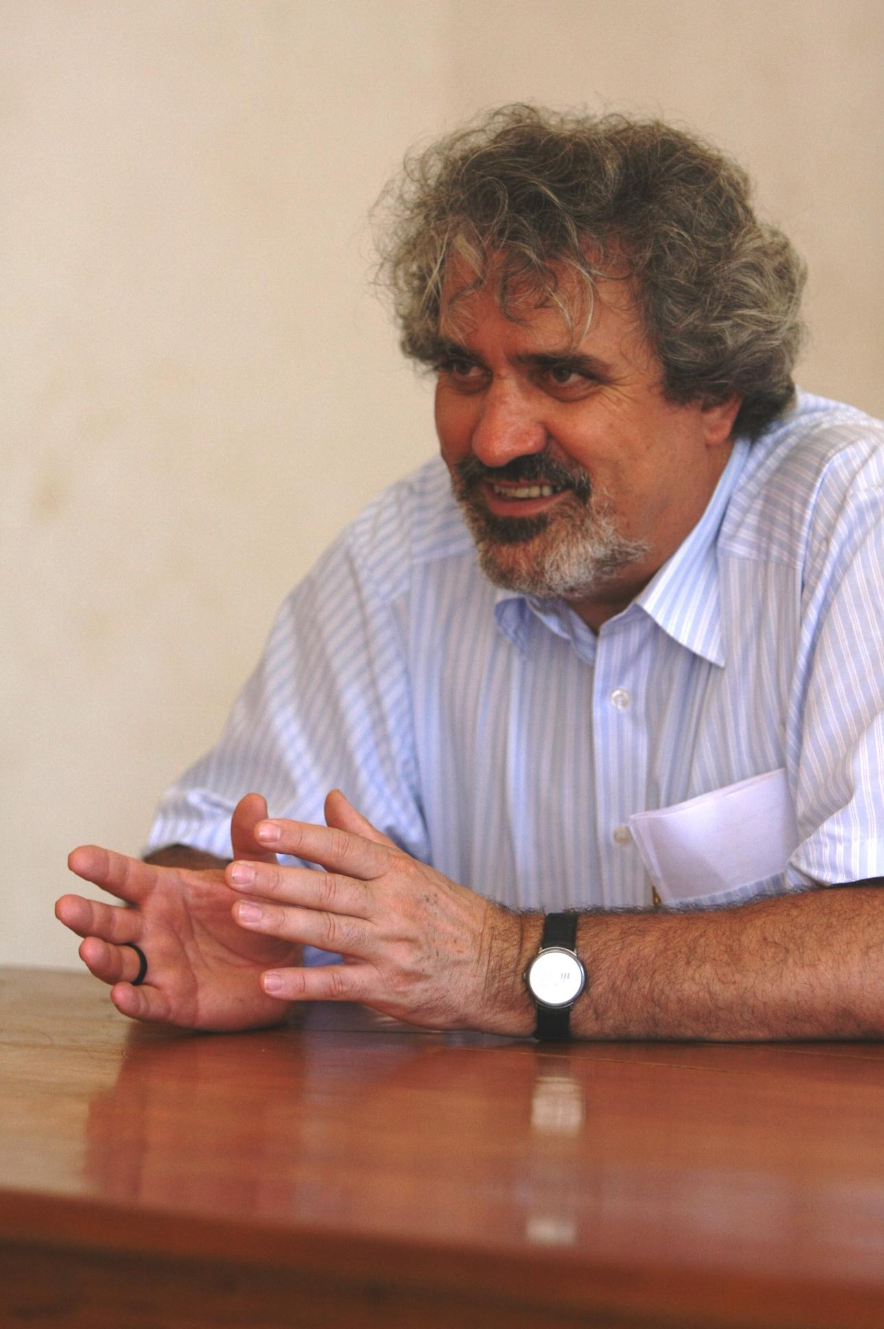 Fr. Peter Balleis SJ., is the international director of the Jesuit Refugee Service (JRS).